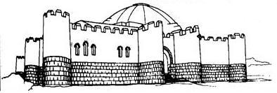 Geguti Palace near Kutaisi, Georgia